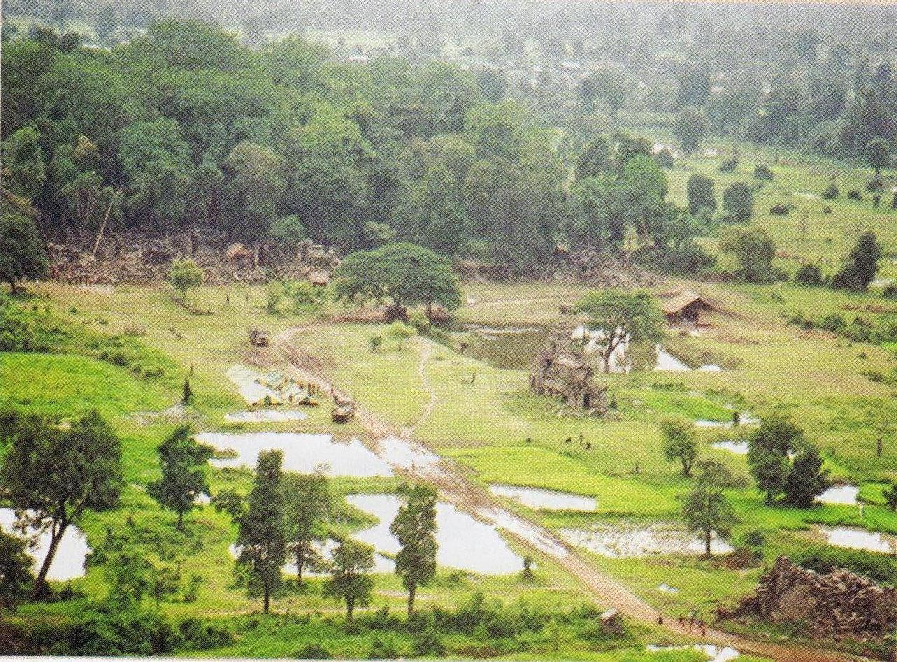 Prasat Banteay Chhmar ភាសាខ្មែរ: ប្រាសាទបន្ទាយឆ្មា